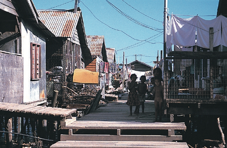 Well-established area of poor housing at Hanuabada, a coastal cuburb of Port Moresby.